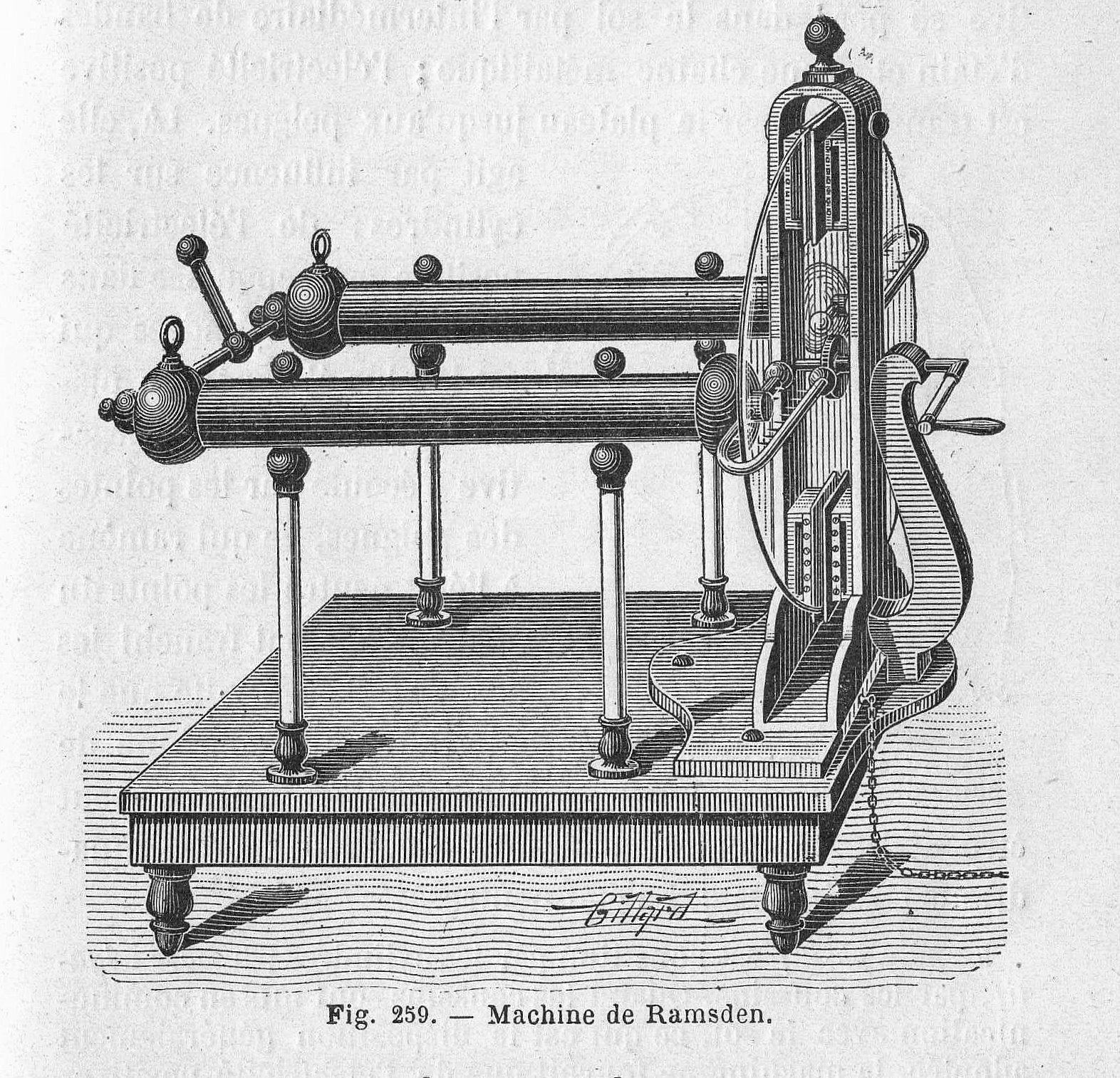 Ramsden electrostatic machine